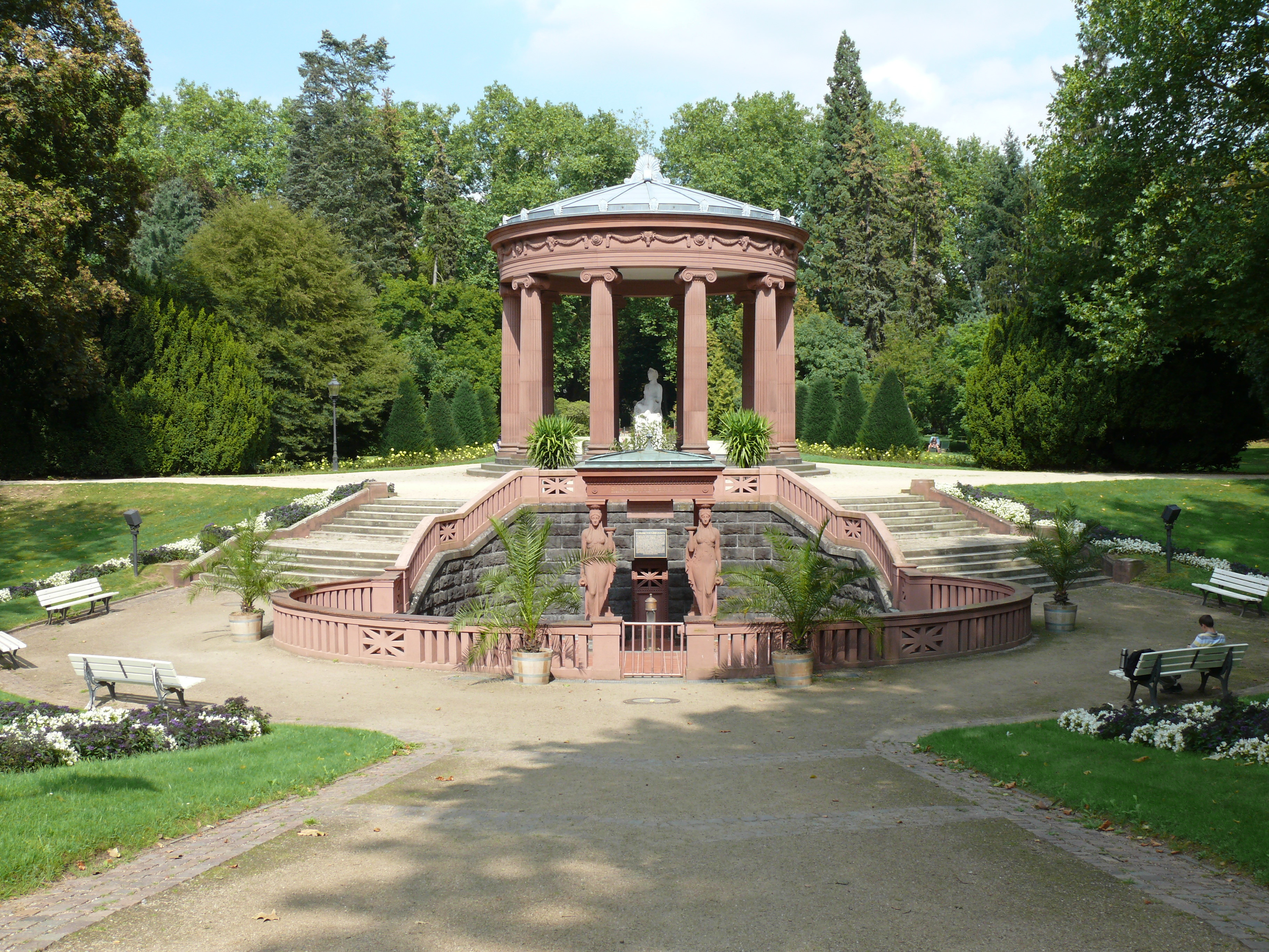 "Elisabethenbrunnen" (Elisabeth's Well) with Hygieia statue at Bad Homburg, Hesse, Germany.